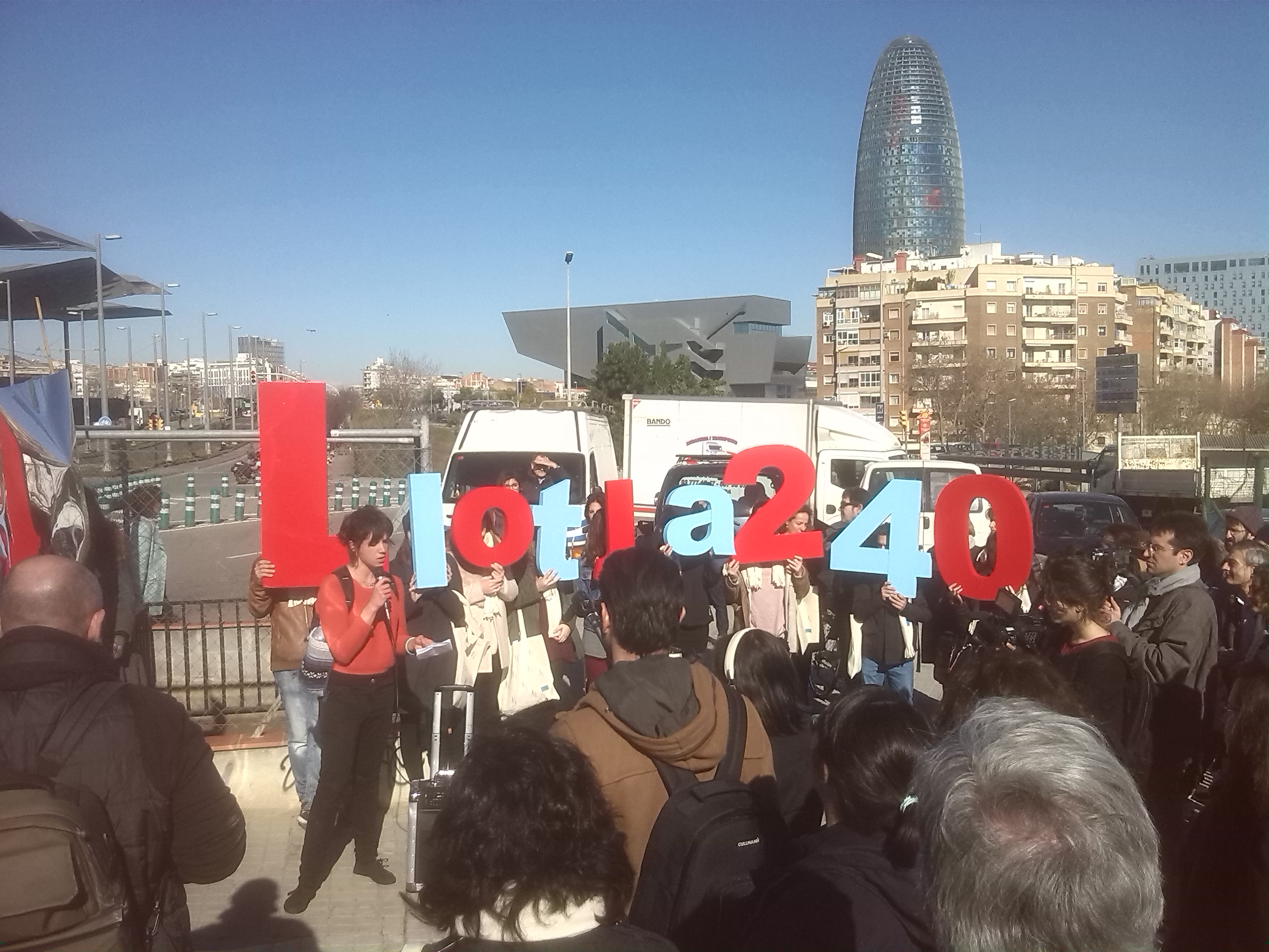 Events and actions on the celebration of Llotja 240th anniversary; January 23th, 2015 in Barcelona